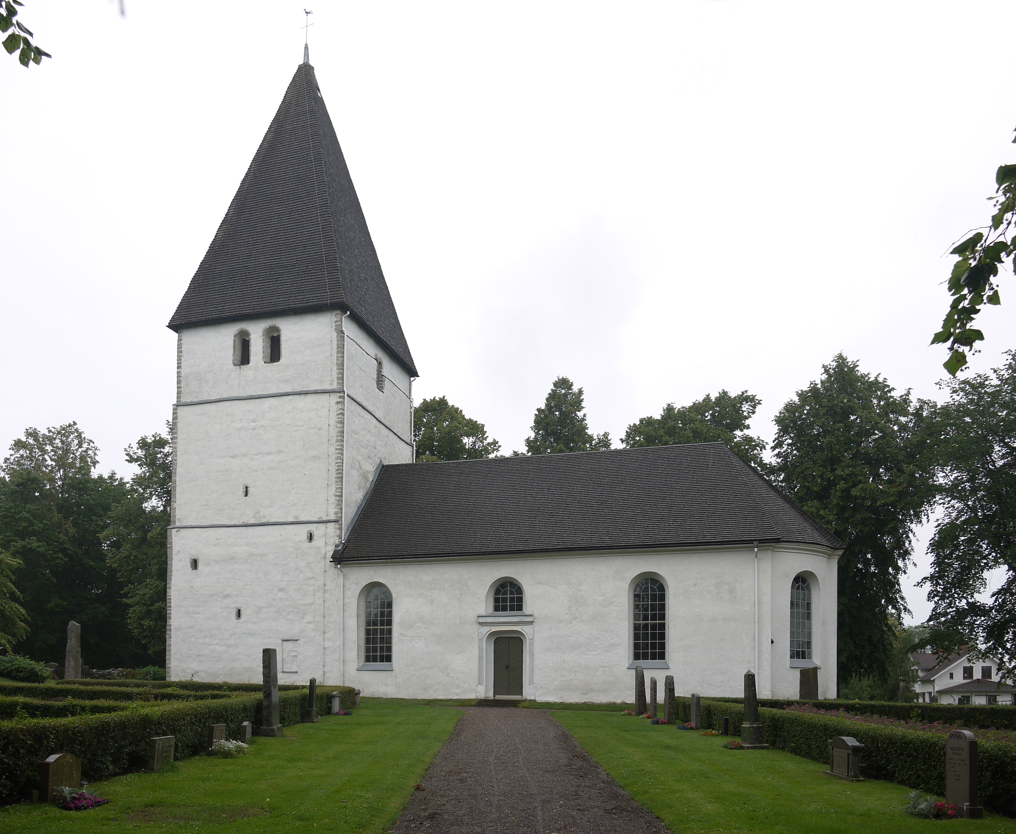 Bjälbo church, Mjölby kommun, Diocese of Linköping, Sweden.